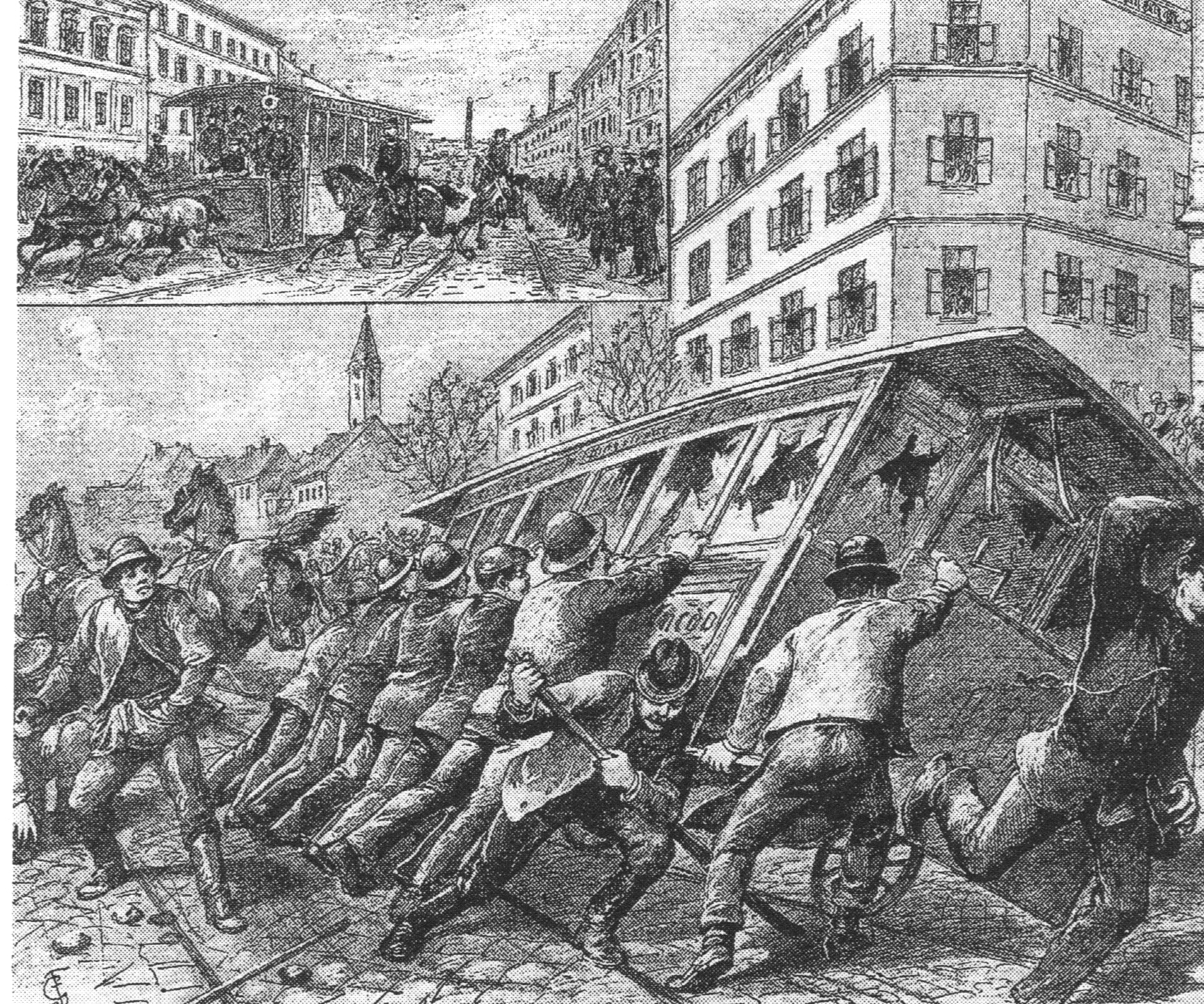 A tramway-waggon is lifted from its tracks during a strike in Hernals